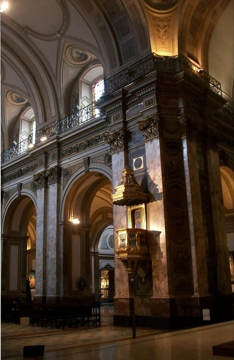 Buenos Aires Metropolitan Cathedral